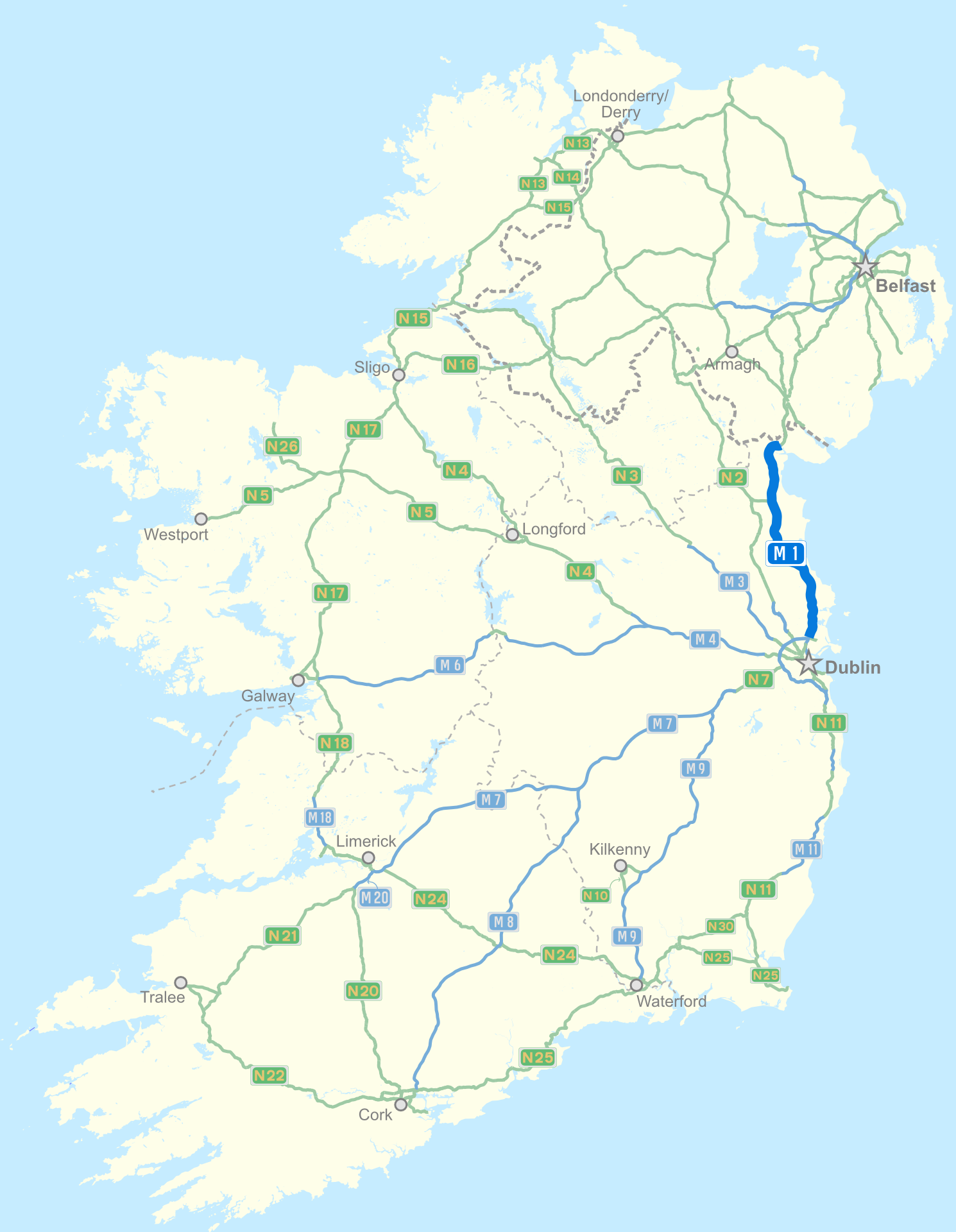 Map of M1 motorway (Ireland) with M1 blue bolded, Nxx routes in green and Mxx routes in blue